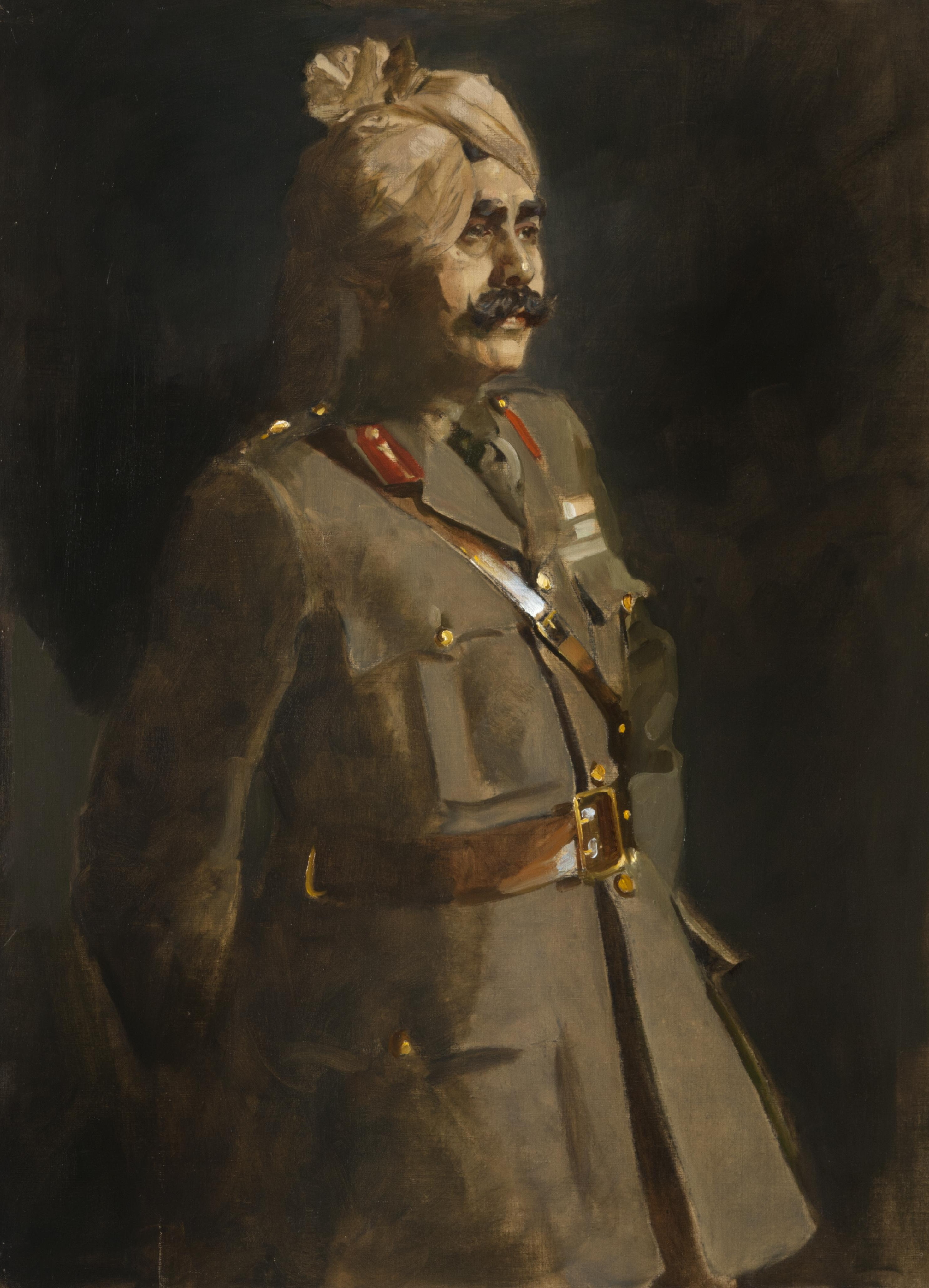 Sri Ganga Singhji Bahadur succeeded his father at the age of seven and assumed full powers as a ruler at eighteen. He commanded the Bikaner Camel Corps as part of the British forces in China in 1901 and, by 1917, had been appointed Major-General in the British Army. With the outbreak of the First World War in 1914, the Maharajah’s military career reached its peak and he was twice mentioned in dispatches. He was one of the three representatives of India at the Imperial War Cabinet of 1917 and at the Peace Conference of 1919, and, in the peace years, led the Indian delegations to the assemblies of the League of Nations. This oil sketch was made by Guthrie in preparation for his great commission ‘Statesmen of the Great War’.